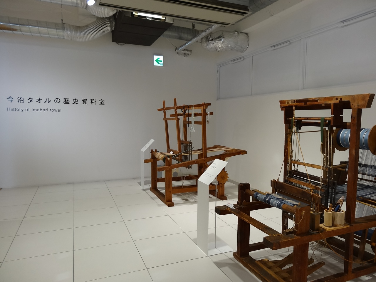 Texport Imabari - The History of Imabari Towel (Imabari City, Ehime Prefecture, Japan)